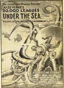 Film poster for 20,000 Leagues Under the Sea